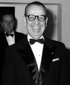 BM Schröder empfängt den türk. Außenmin. Feridun Cemal Erkin, Venusberg Information added by Wikimedia users.{| class="layouttemplate" style="margin: 0.5em auto; width: 100%; background-color: #f8f8f8; border: 2px solid #e0e0e0; padding: 5px;" lang="en" dir="ltr" |- | | style="width:100%;" | This is a retouched picture, which means that it has been digitally altered from its original version. Modifications: eine personen heruasgestellt. The original can be viewed here: Bundesarchiv Bild 183-H29994, Liman von Sanders mit türkischen Offizieren.jpg: . Modifications made by User:Alexandre Vallaury. |}